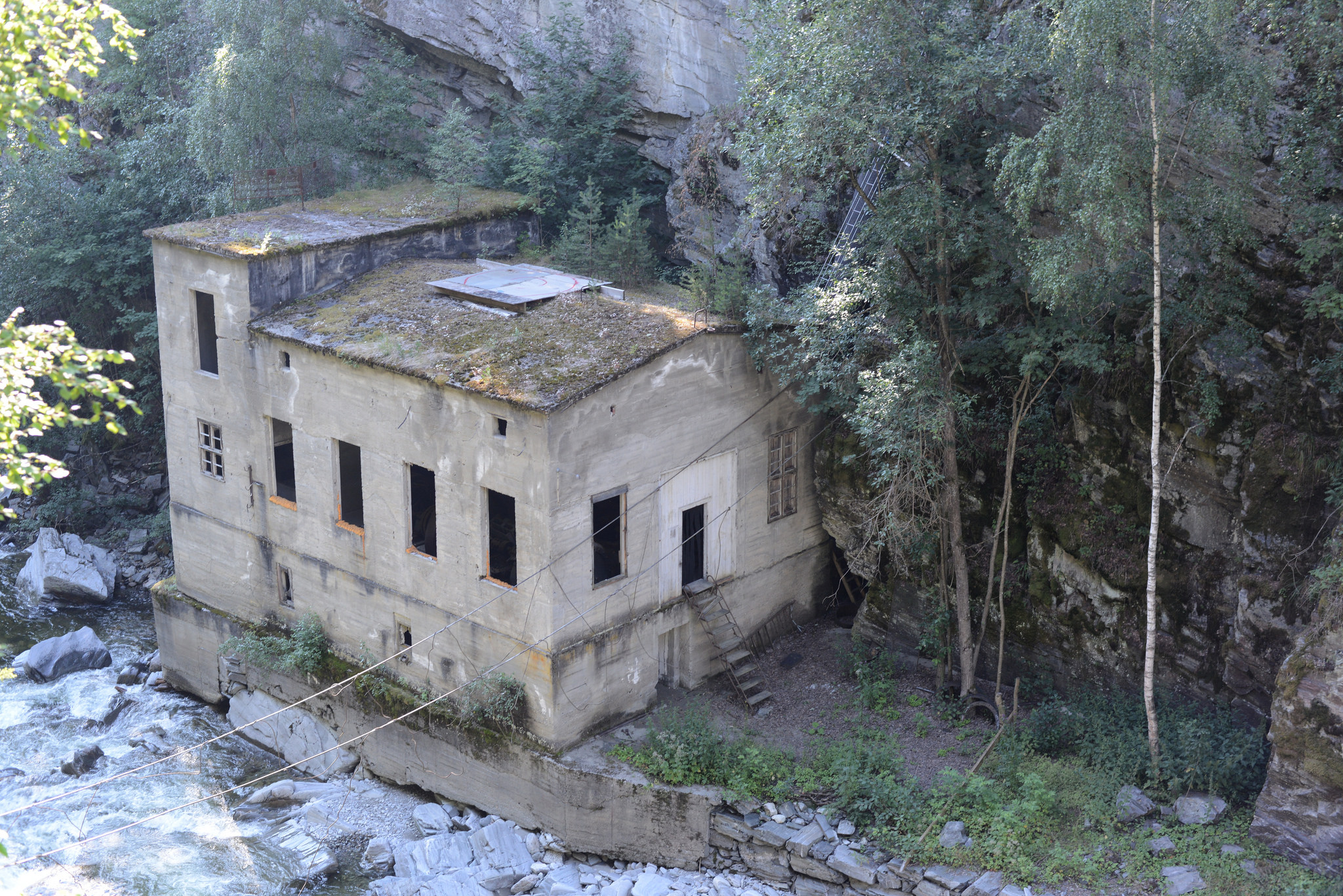 Frya kraftstasjon on the Frya river